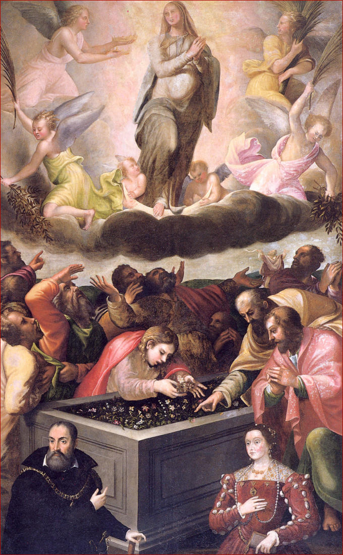 Assumption of Mary